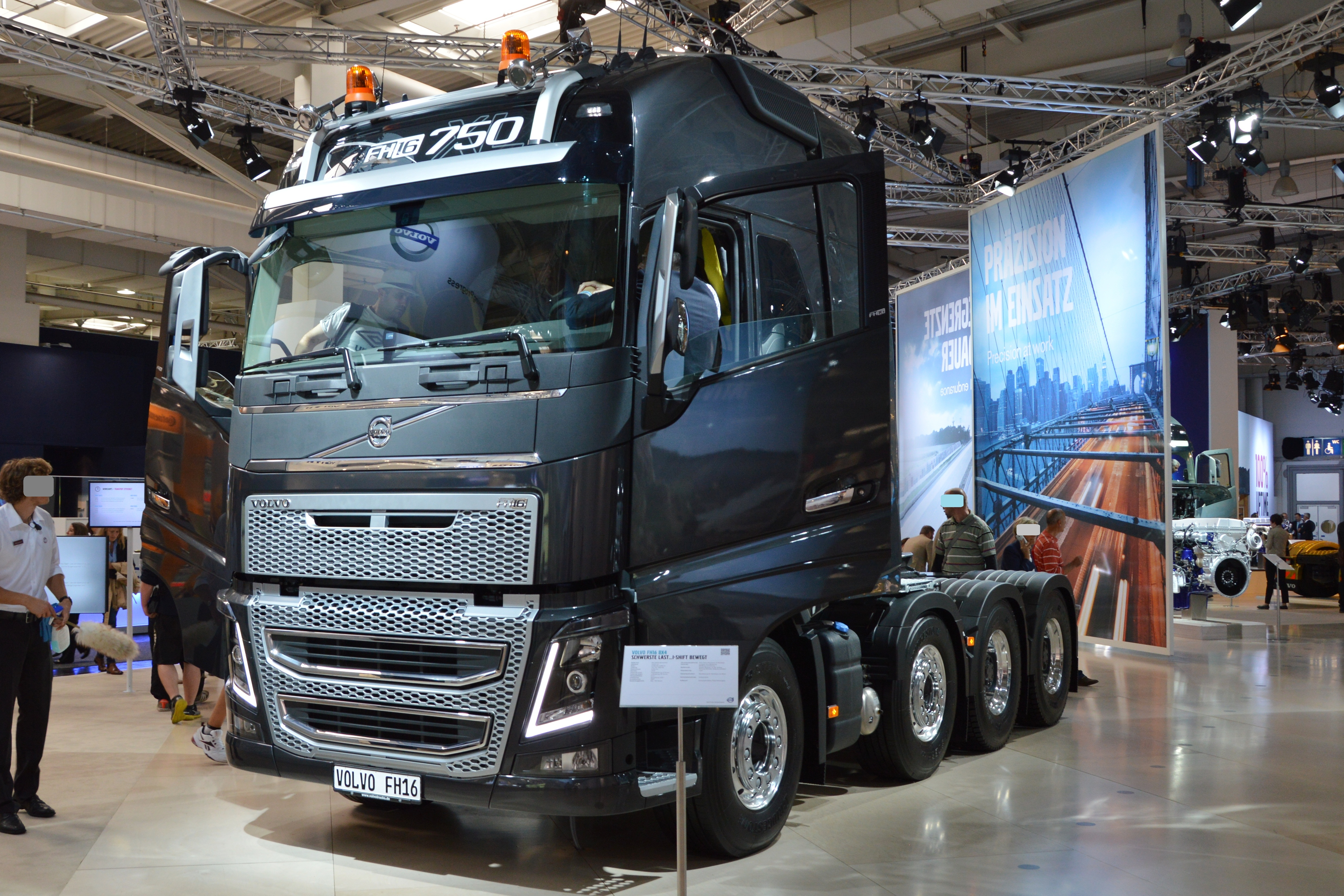 Volvo FH 16 750 8x4. Engine: Volvo D16G. Power: 750 hp. GCW: up to 100 t. Photo taken at exhibition IAA 2014 in Hanover, Germany.